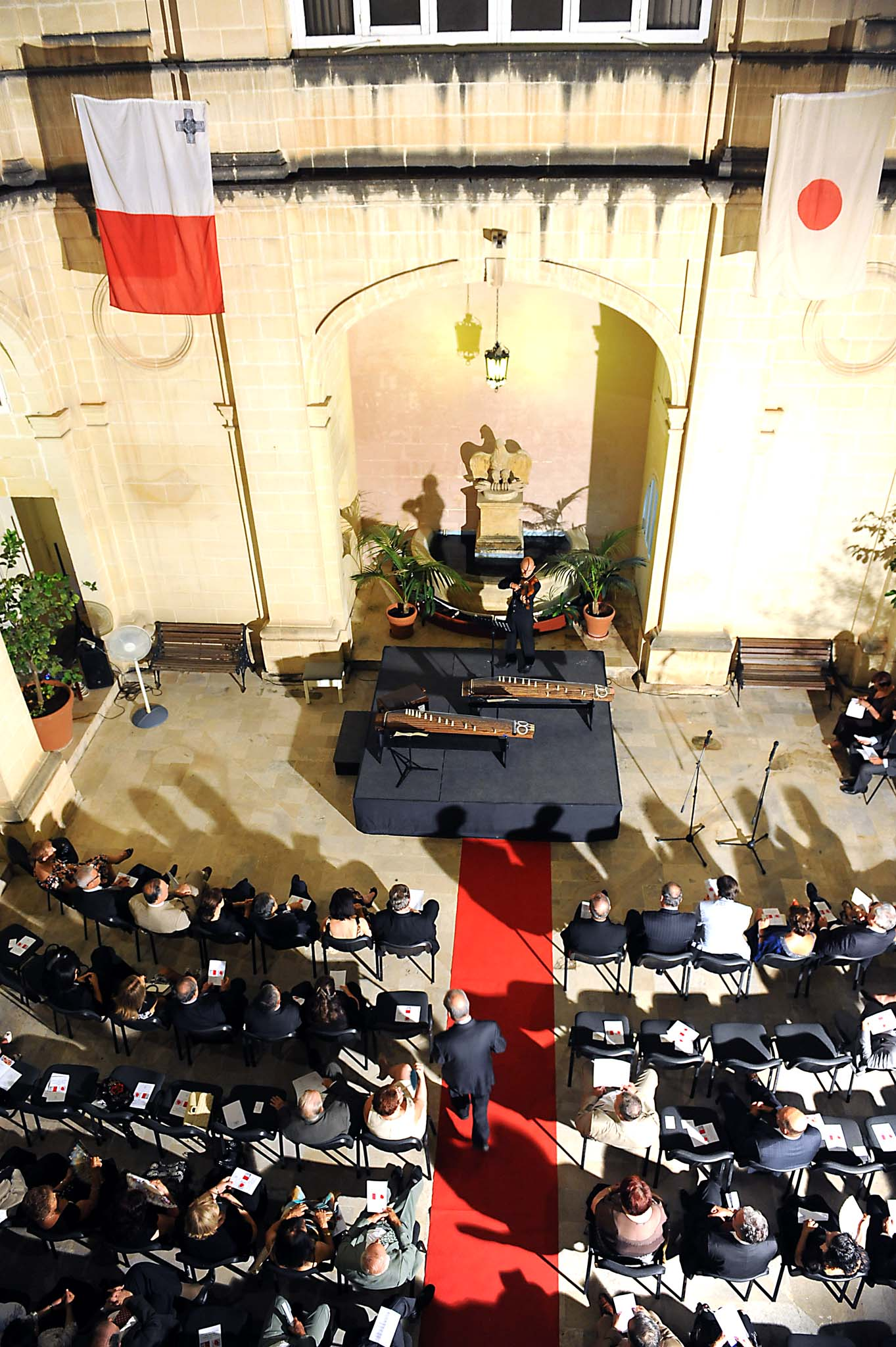 Tonio Borg, Deputy Prime Minister and Minister for Foreign Affairs, held the concert for the victims of Tōhoku earthquake and tsunami at the Ministry of Foreign Affairs in Valletta City on July 13, 2011. Valhmor Montfort, violinist, played the violin.(c.f. "東日本大震災をめぐるイタリア、アルバニア、マルタ、サンマリノでの日本支援エピソード集", ambasciata del giappone, Ambasciata del Giappone in Italia.)